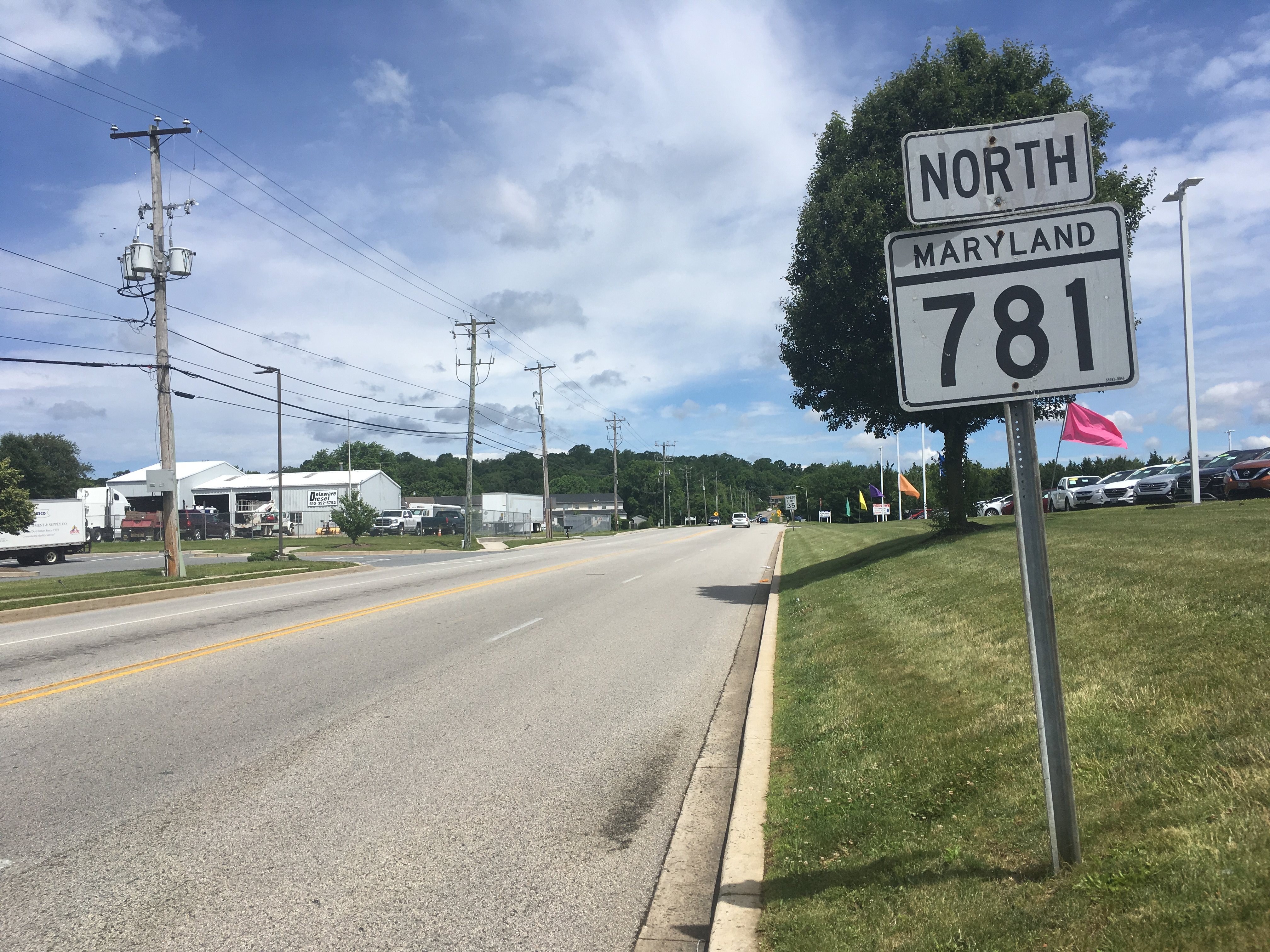 Northbound Maryland Route 781 (Delancy Road) past its southern terminus at U.S. Route 40 (Pulaski Highway) in Elkton, Maryland